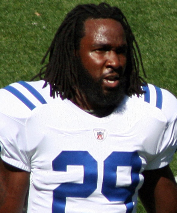 Joseph Addai, a player on the Indianapolis Colts American football team.